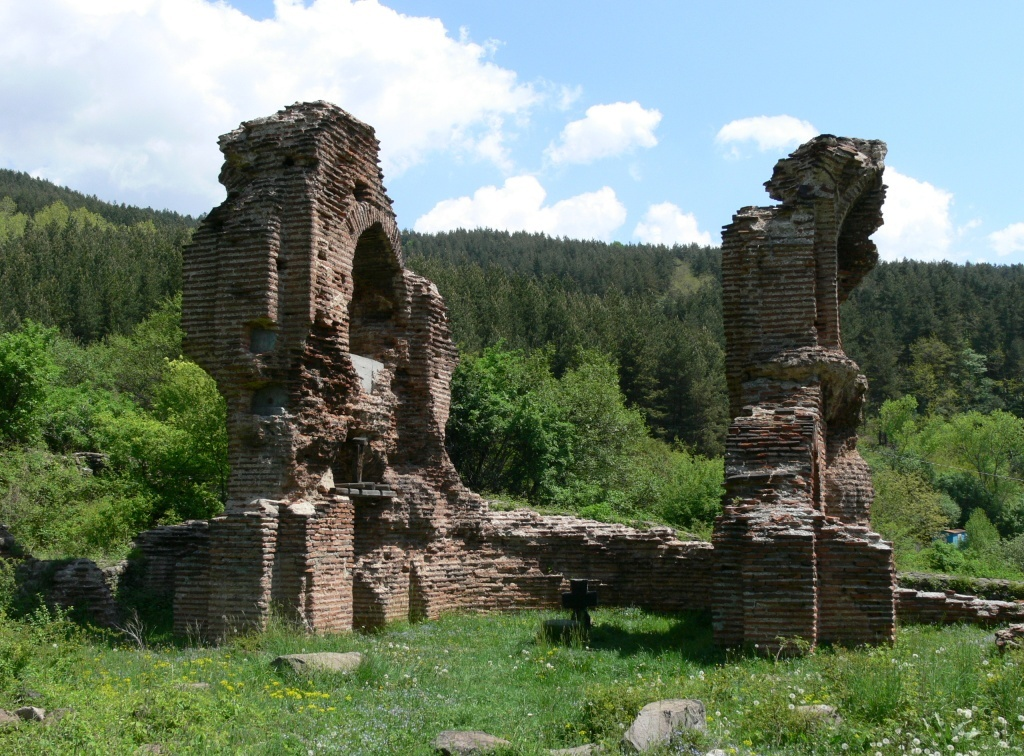 Elenska Basilica, near viilage Anton, Bulgaria